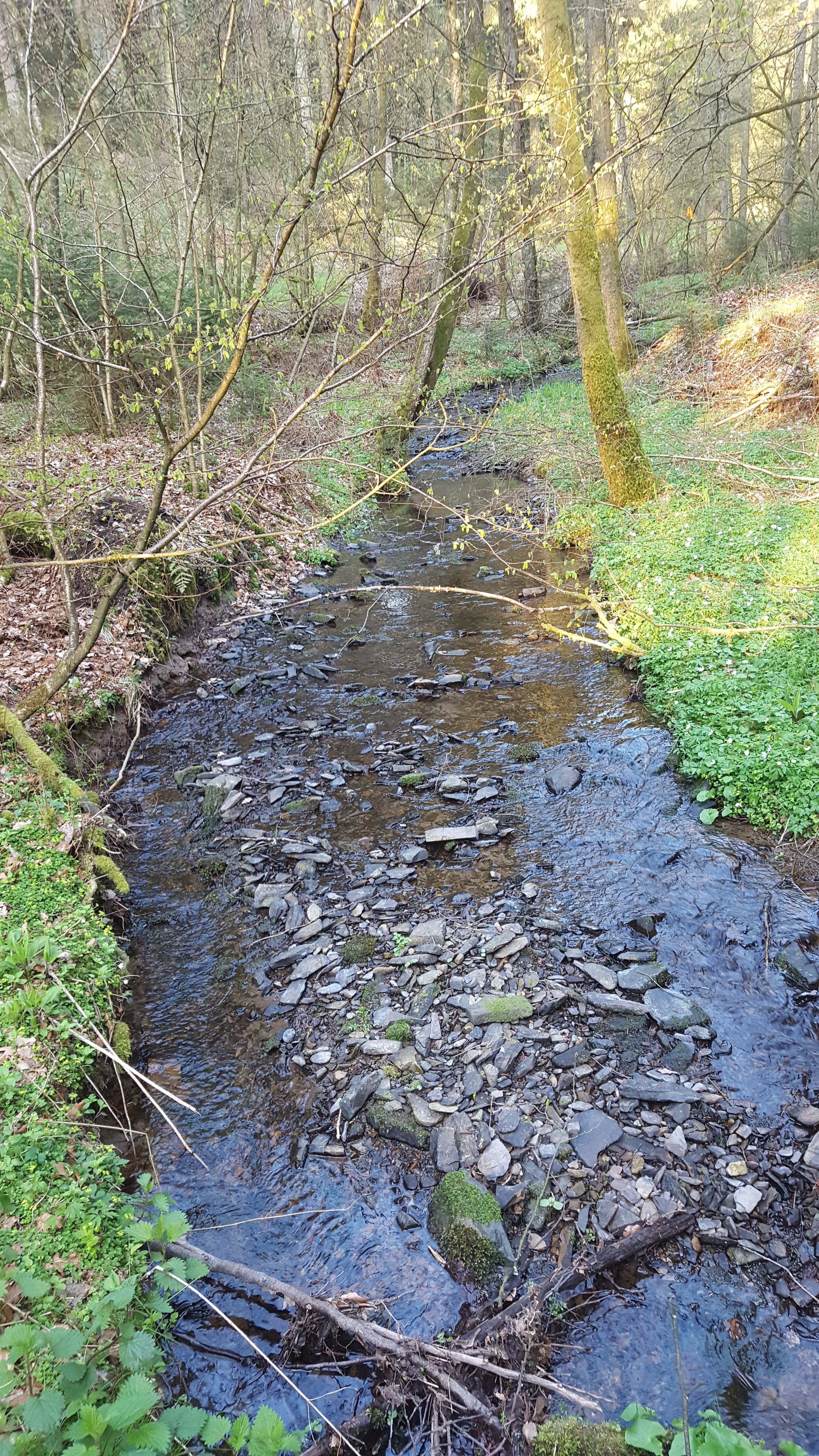 The brook Alsmicke a few hundred meters up its mouth, located in "Alsmicketal mit Hangwäldern" nature reserve (Germany).